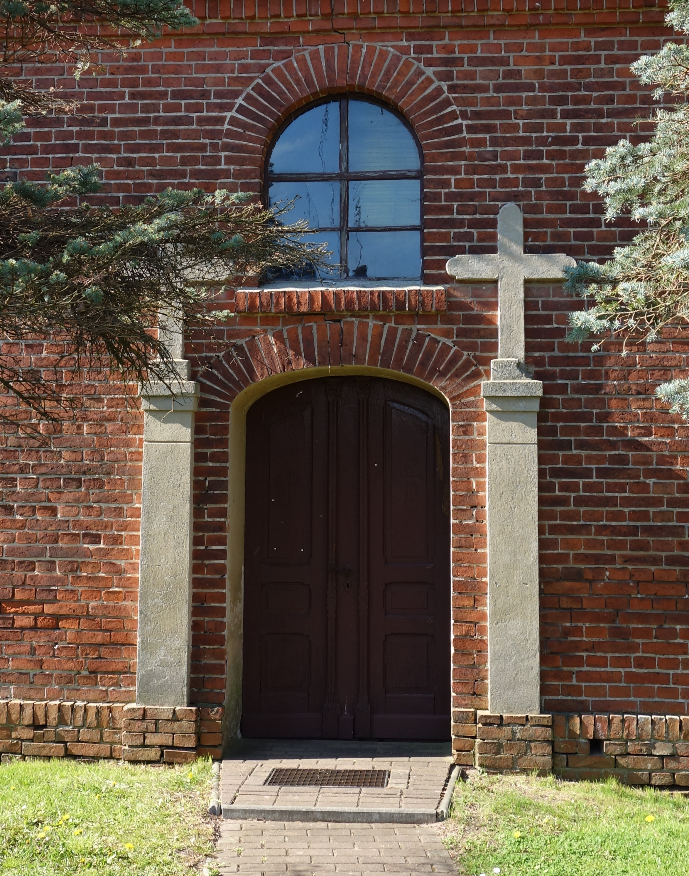 Southern portal of church in Wassersuppe, Seeblick municipality, Havelland district, Brandenburg state, Germany.